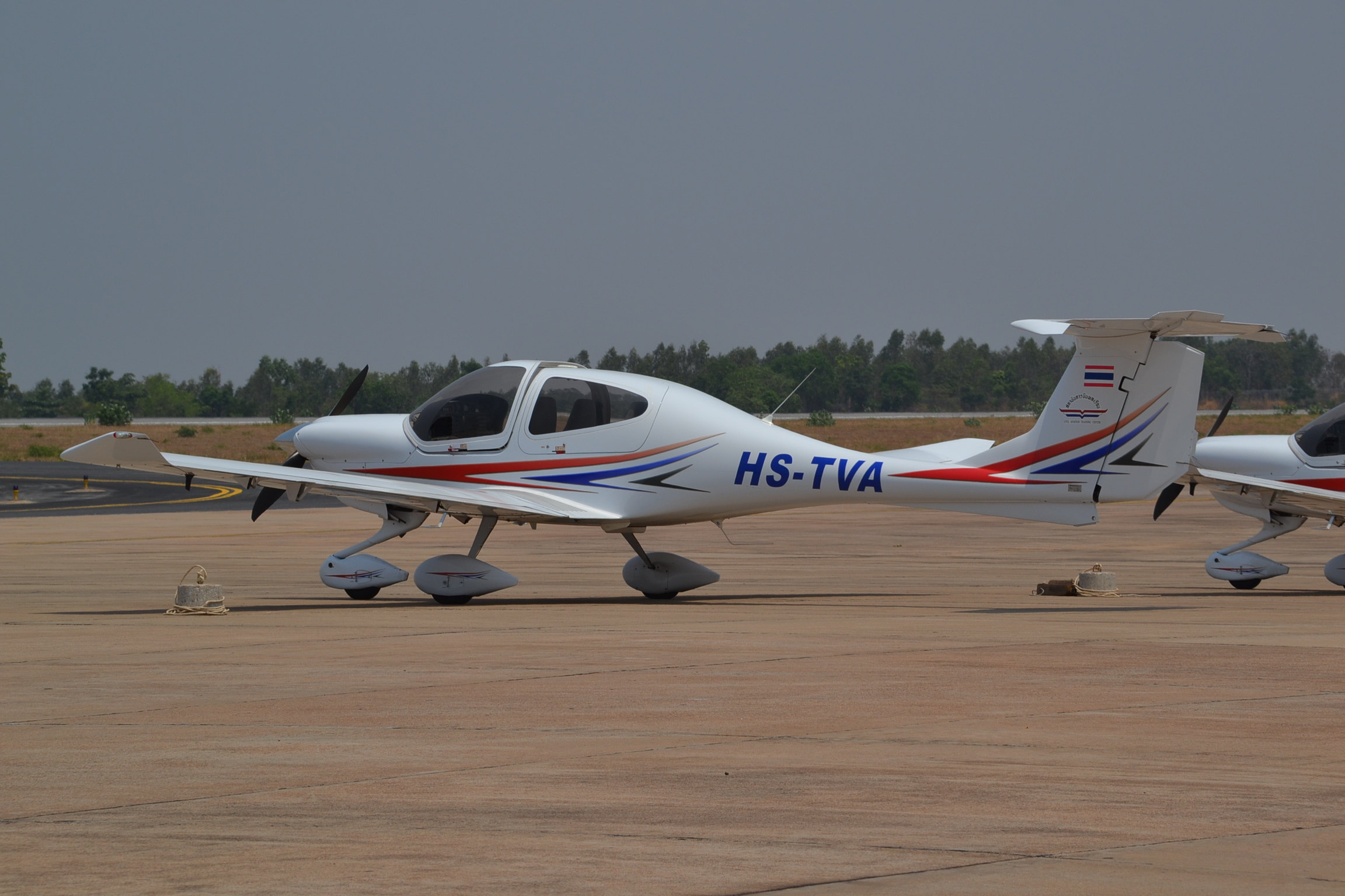 Diamond DA40 of the Civil Aviation Training Centre at Khon Kaen-KKC,Thailand, 01/04/14.